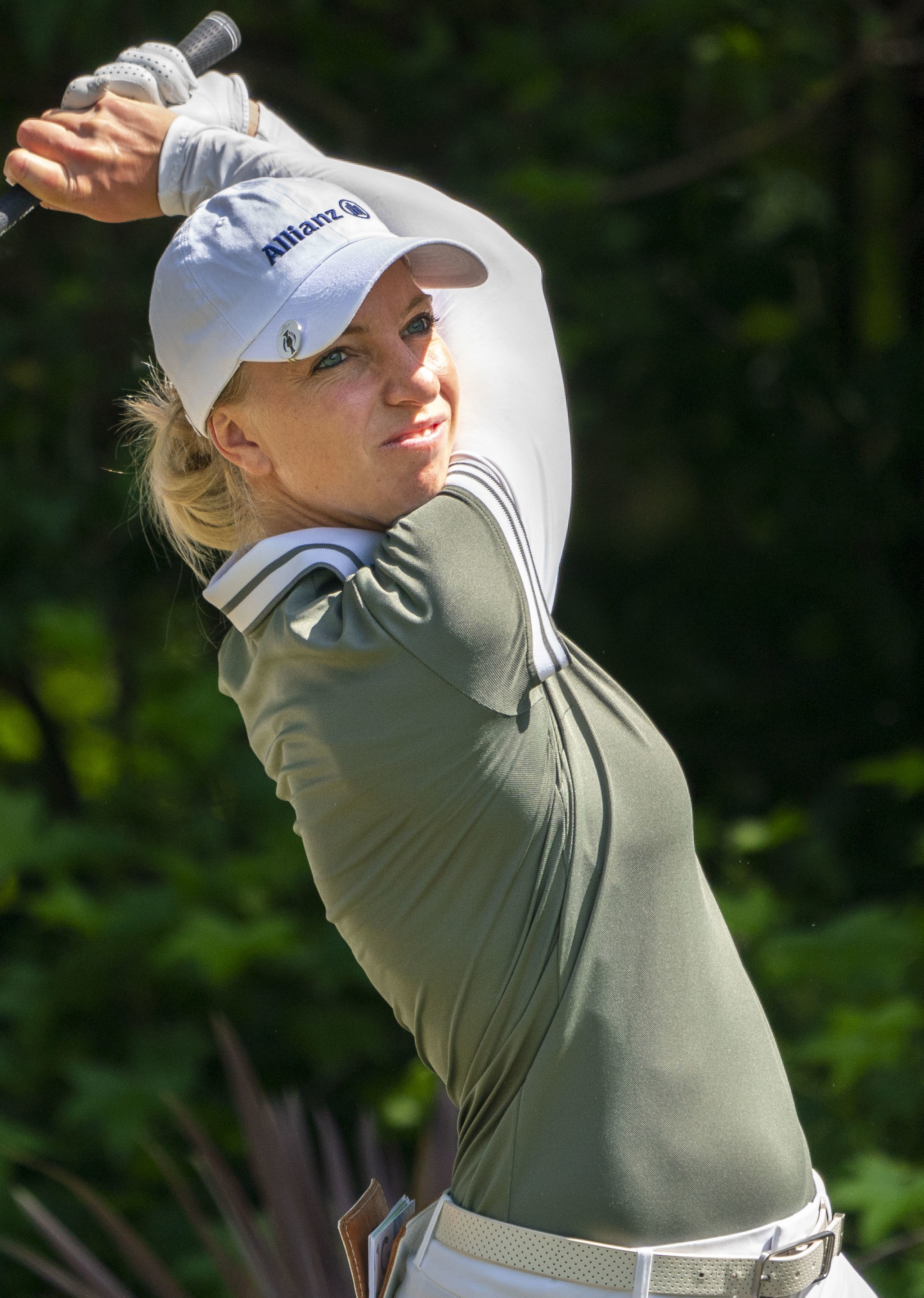 Pure Silk Championship 2019